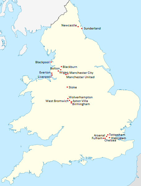 Premier League 2010/11 Map Norsk (bokmål): Kart over lag i Premier League 2010/11